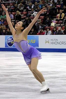 Mao Asada during her short program at the 2013 Skate America.